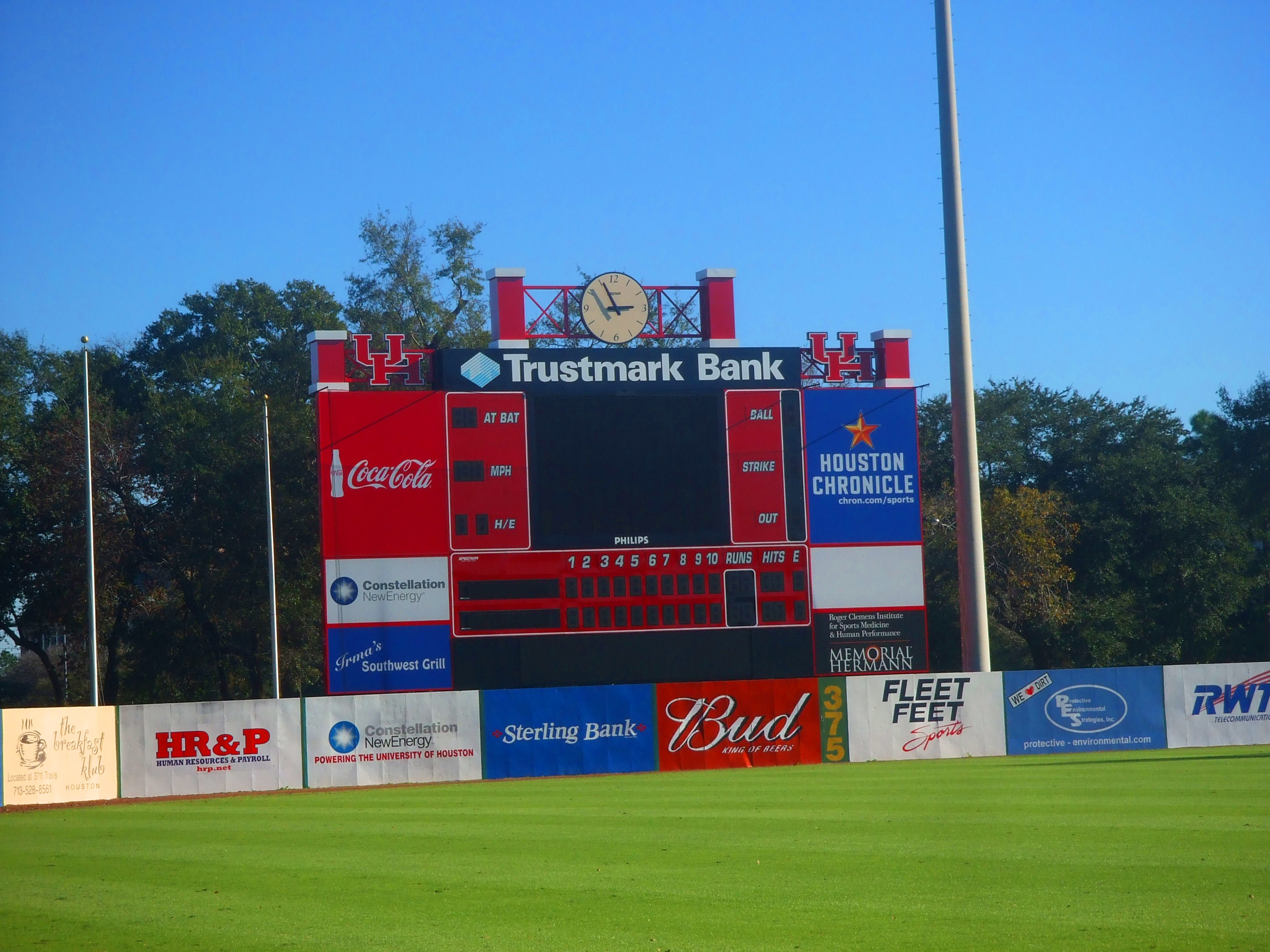 The scoreboard at Cougar Field, the ball park for the University of Houston Cougars.